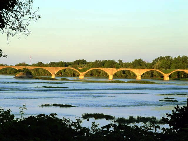 I took this image of Farnsworth Metropark, in Toledo, Ohio in 2003. I plan on using it on the Toledo Metroparks page.